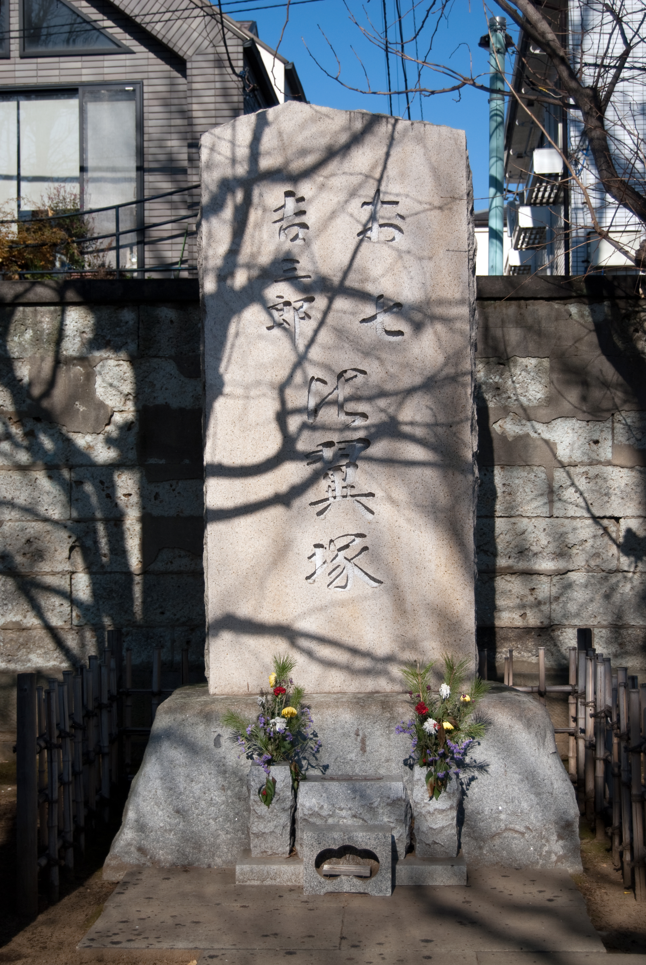 Monument of Oshichi and Kichisaburō in Kichijō-ji temple